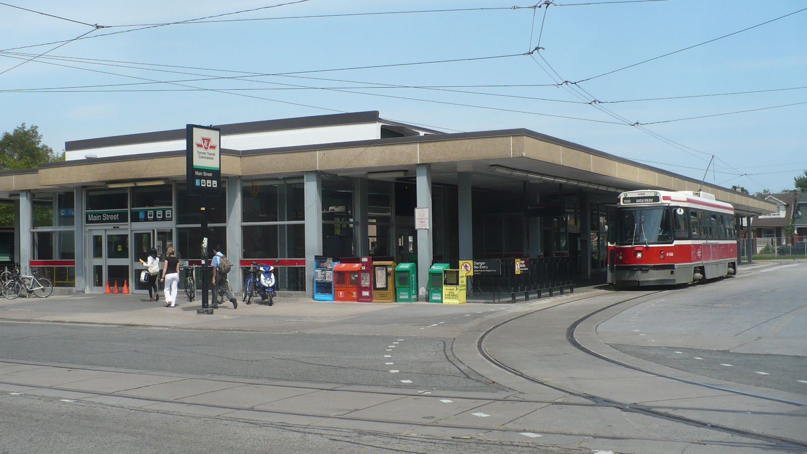 Main Street subway station building in Toronto